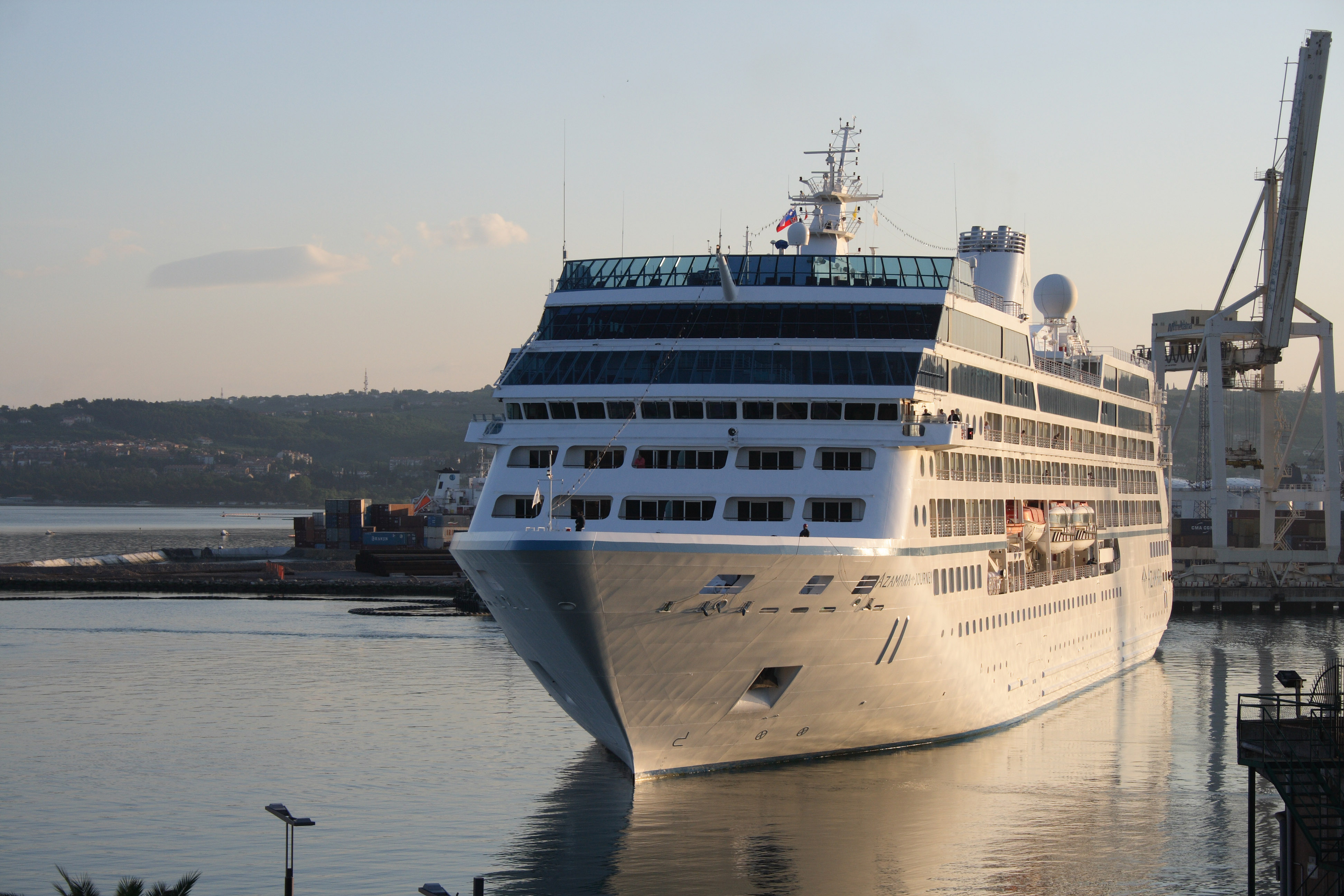 Azamara Journey closing in to dock